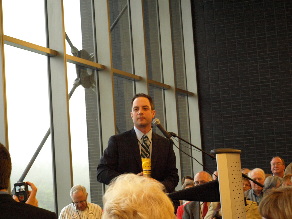 RPW Chairman Reince Priebus